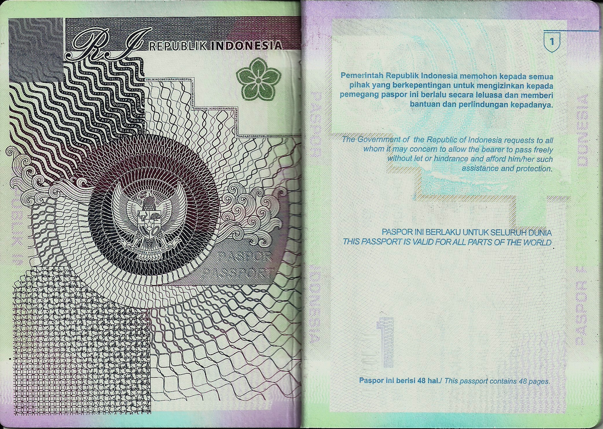 Inside cover and the first page of an electronic Indonesian passport - containing passport note in Indonesian and English